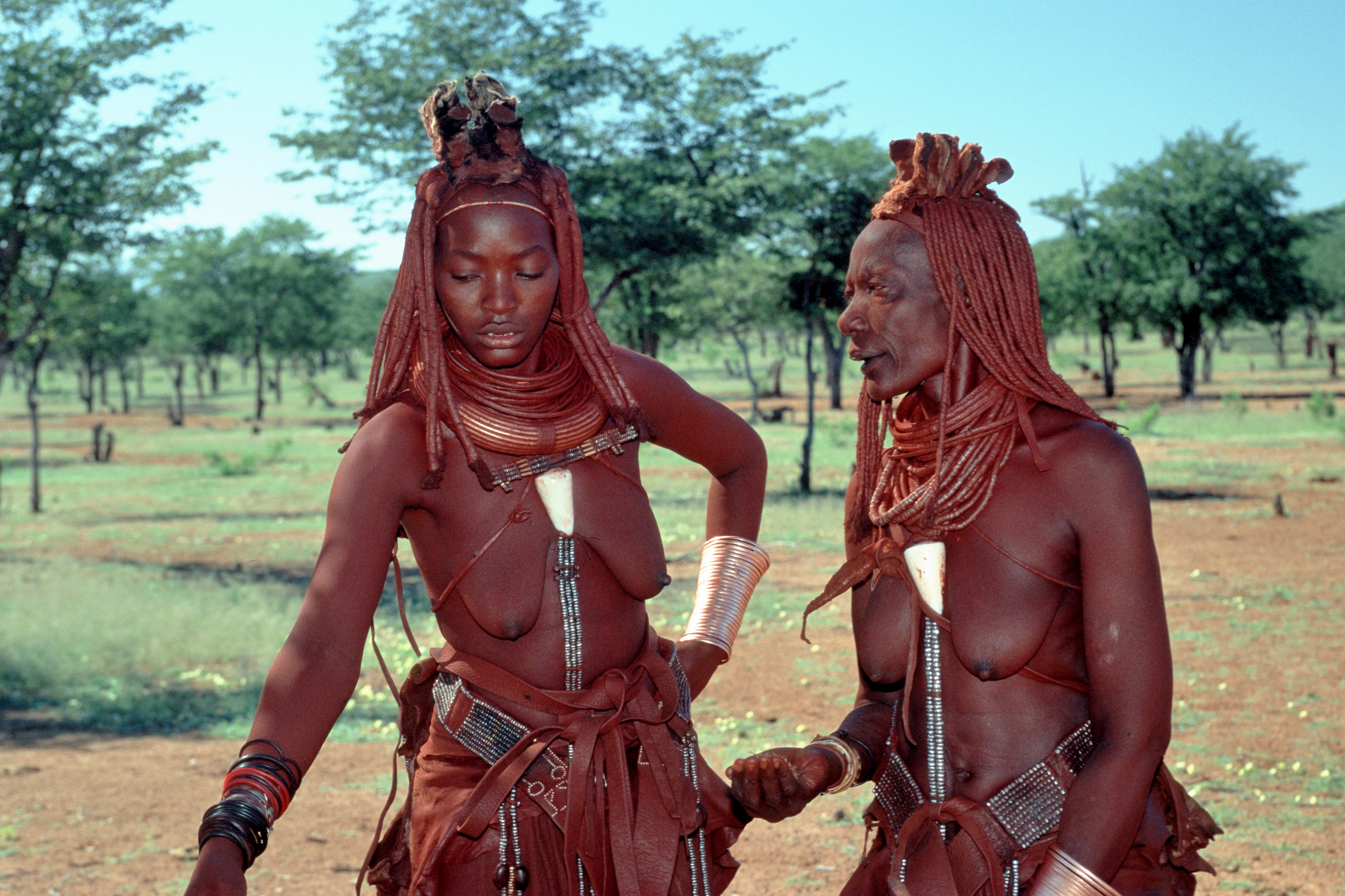 Headman Kapika´s wife and daughter